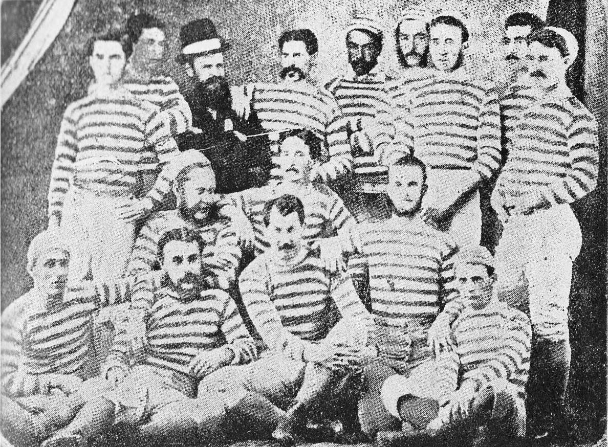 The Auckland RU representative team.